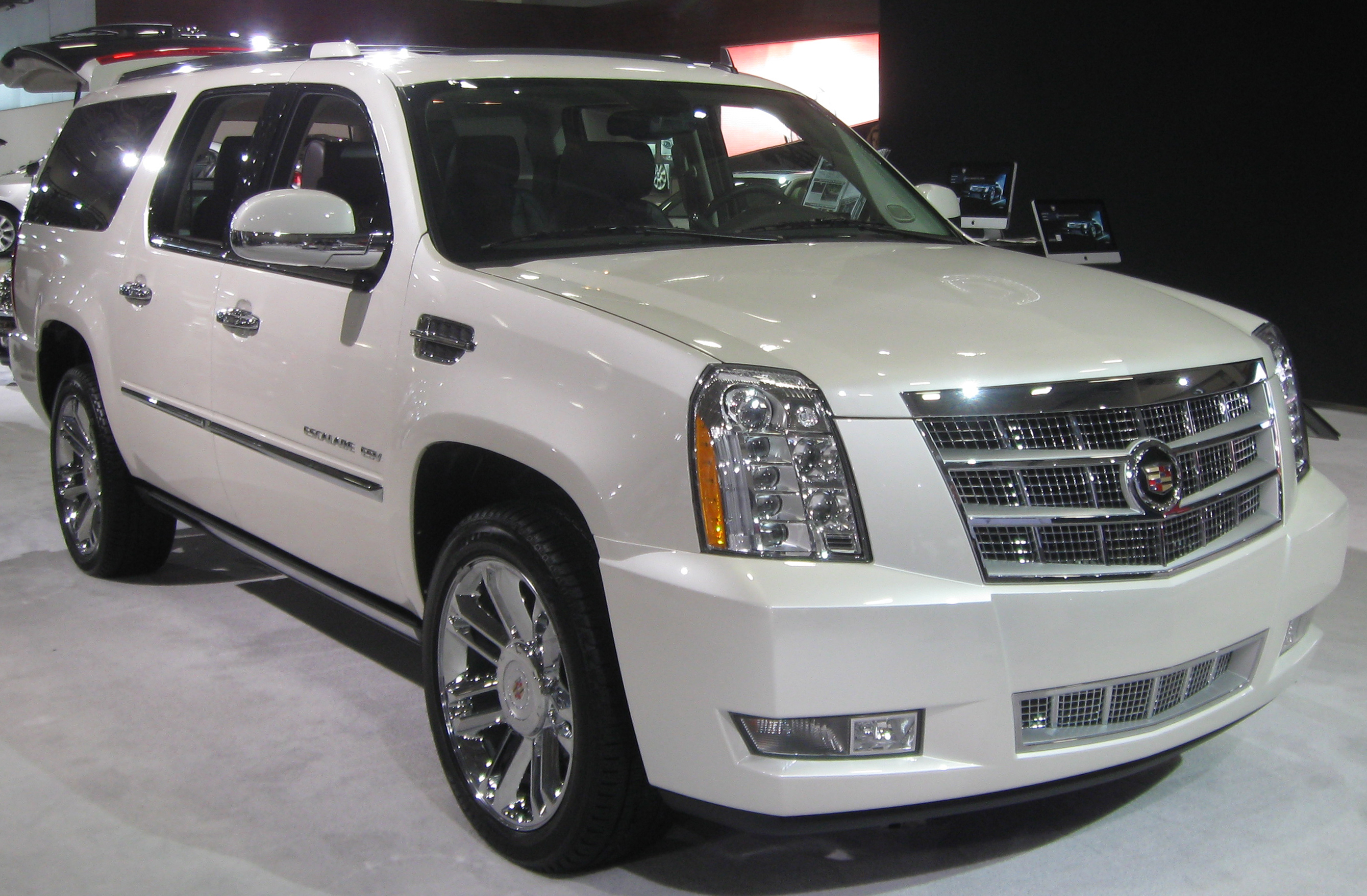 2011 Cadillac Escalade ESV photographed at the 2011 Washington (D.C.) Auto Show.